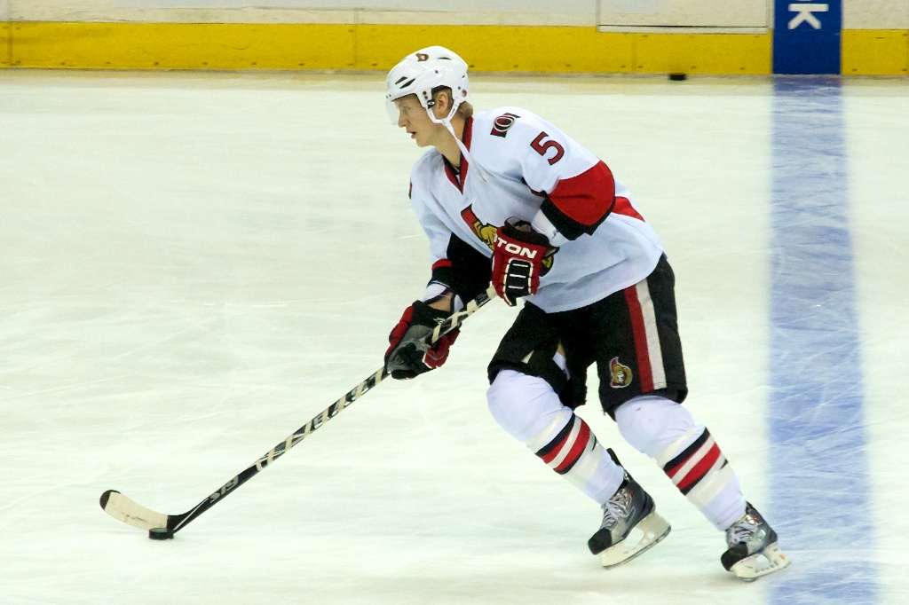 Brian Lee of the Ottawa Senators during warmups against the Washington Capitals.